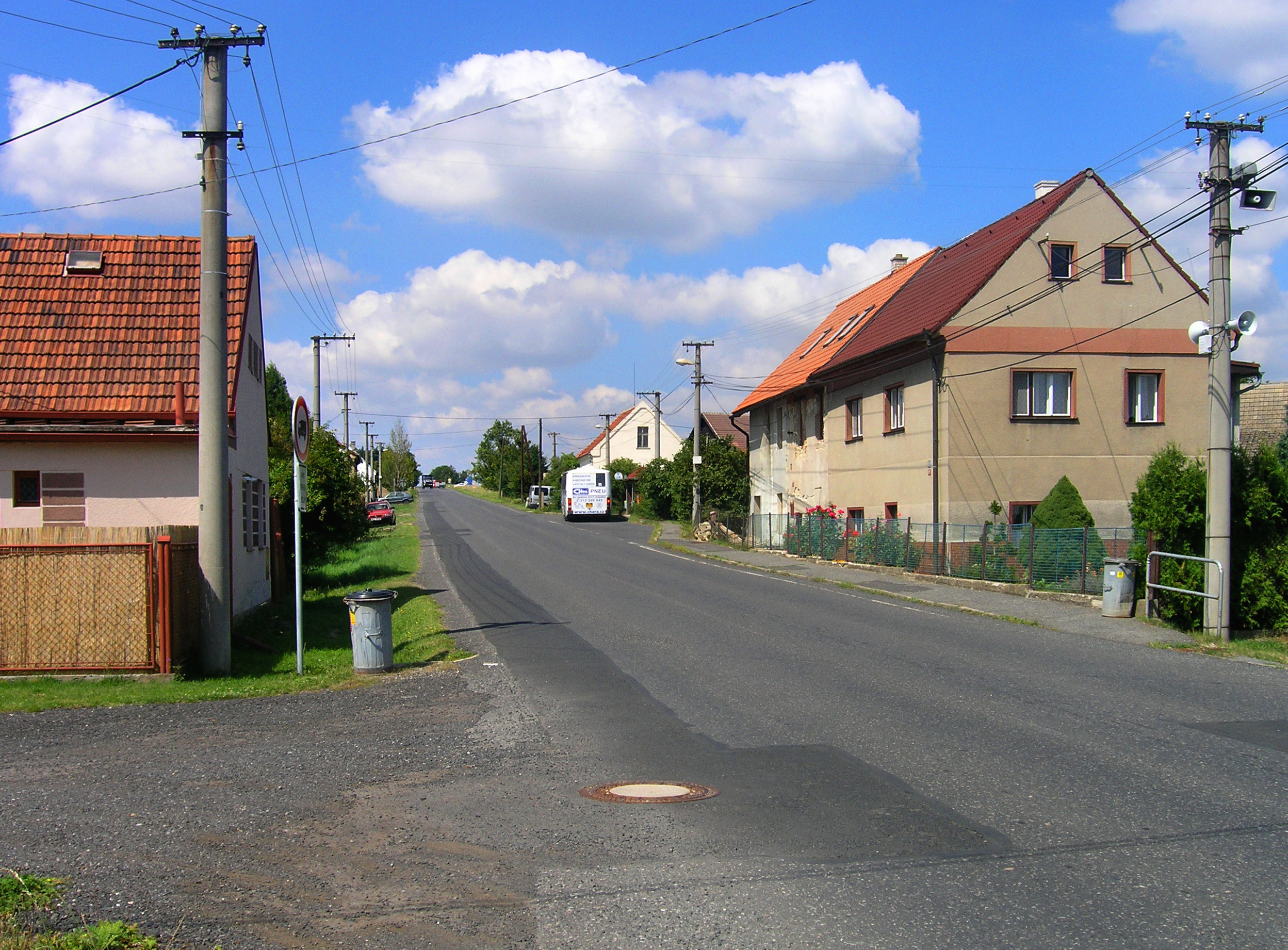 Toskánka, part od Braškov village, Czech Republic